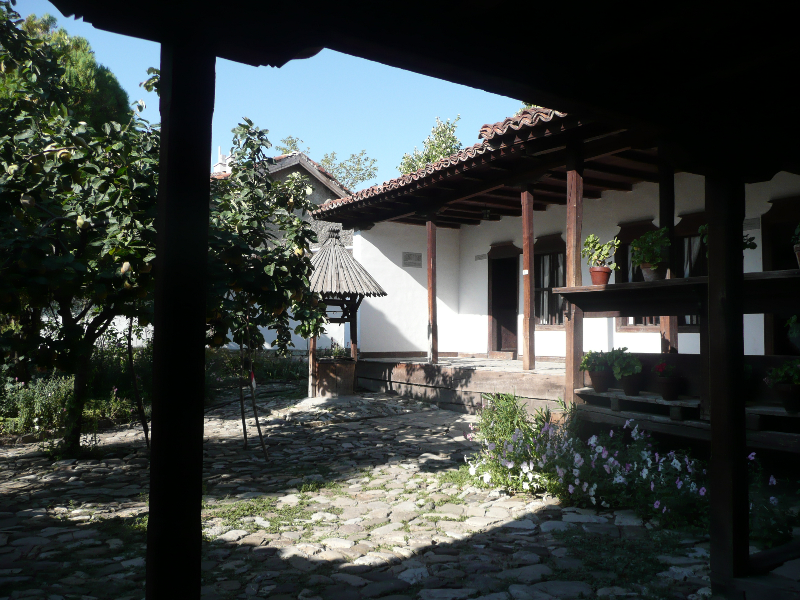 Hadzhi Dimitar's house in Sliven